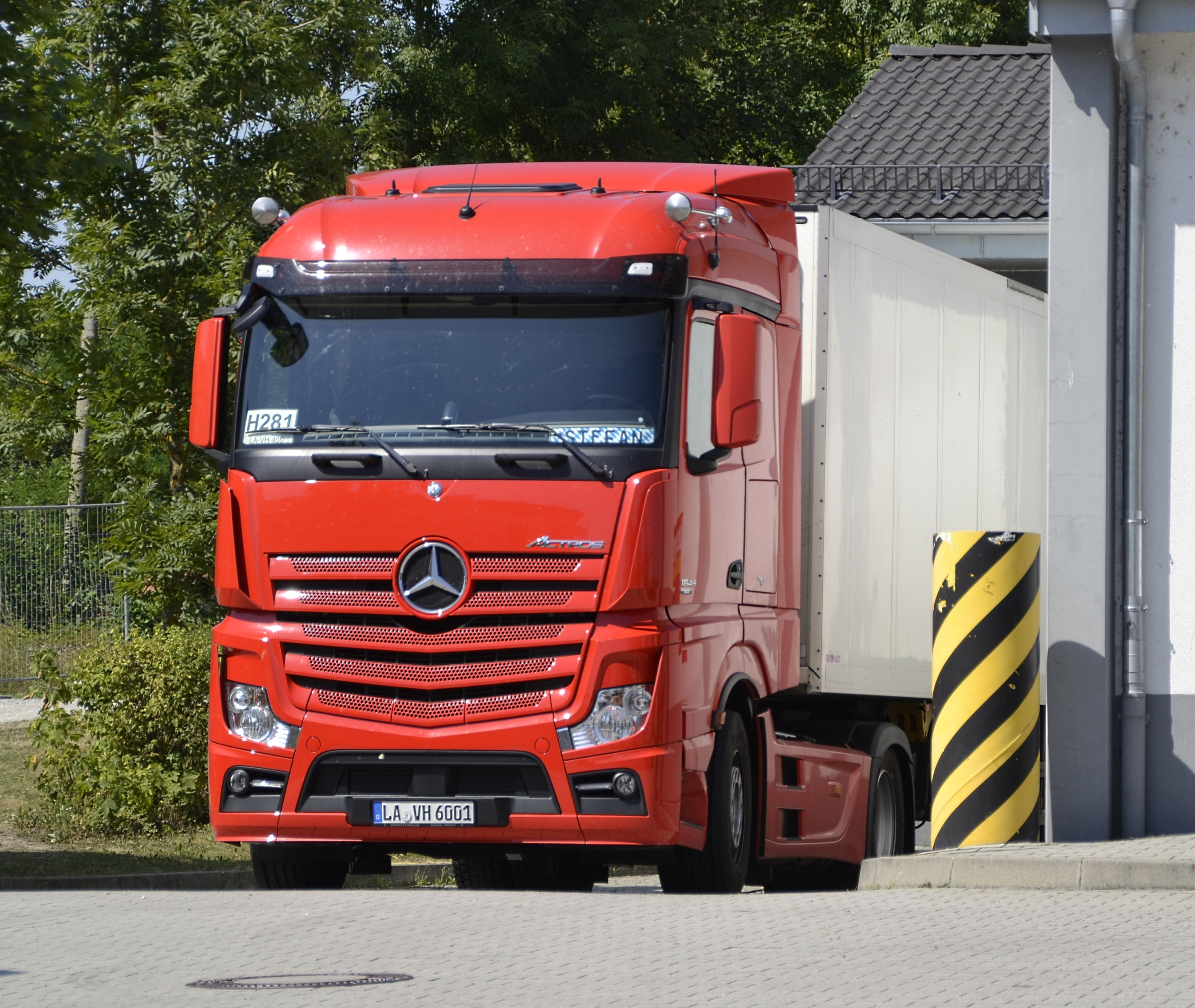 Mercedes-Benz Actros - 2012 design.